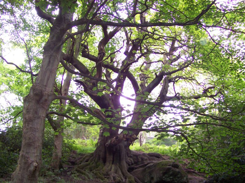 The Chained Oak, Alton